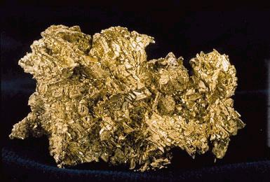 Crystaline Gold